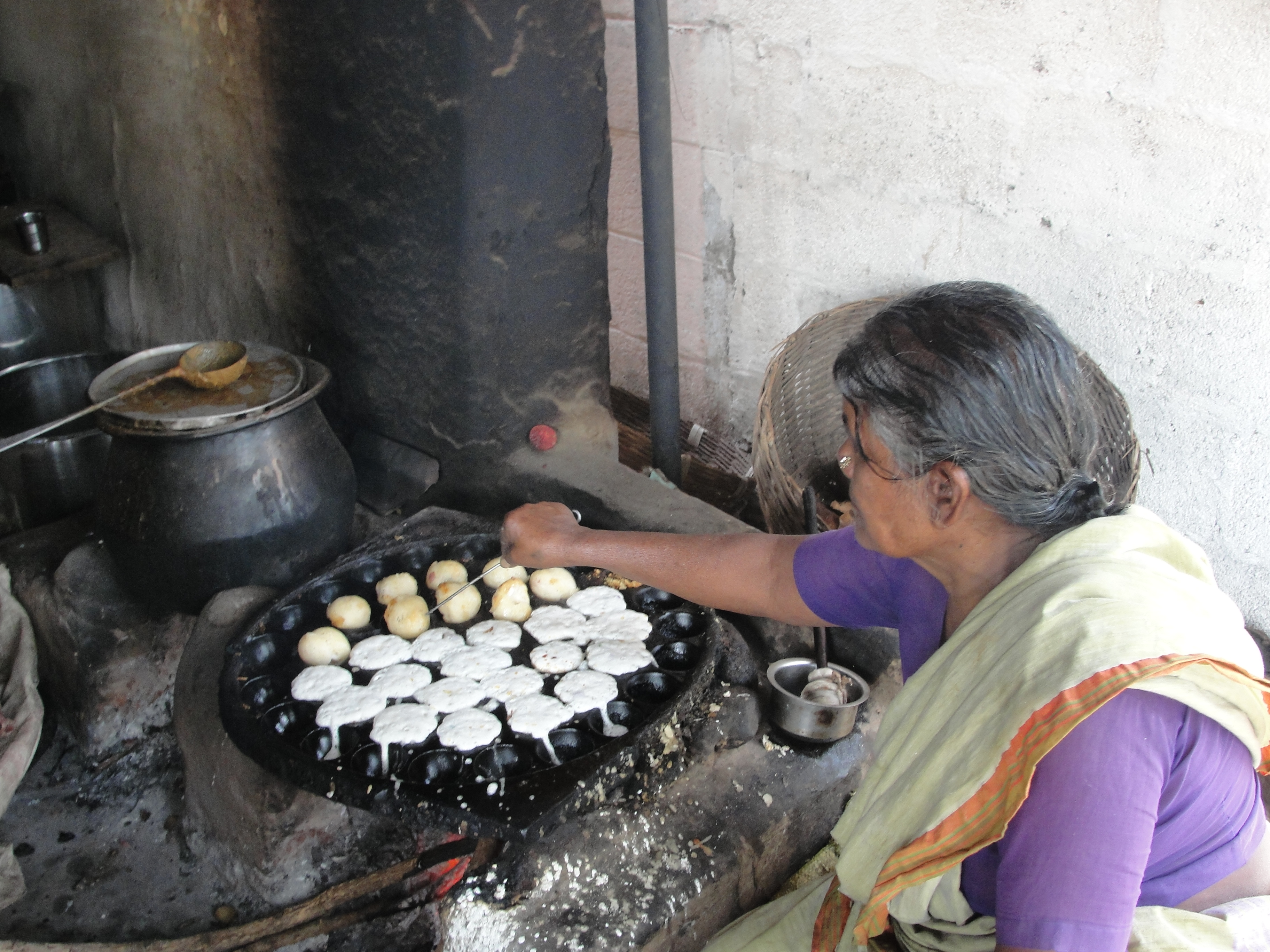 A visual of Kuzhi paniyaram making.The Kuzhi paniyaram (Tamil: குழிப் பணியாரம்) is a South Indian dish made by steaming batter — traditionally made from pulses (specifically black lentils) and rice using a mould. The batter used is the same as that for idli and dosa. Kuzhi paniyarams can be made sweet or spicy.